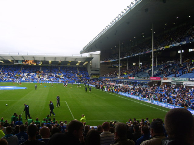 Goodison Park, 4 km from Bootle, Sefton, Great Britain. Main Stand with the newer Park End (out of square) in shot. A grand old ground but unlikely to hang on much longer although plans for the new stadium are far from clear. It was said in the past that in the main stand when the blues were playing you would find the largest number of Catholic Priests in the country in one place.